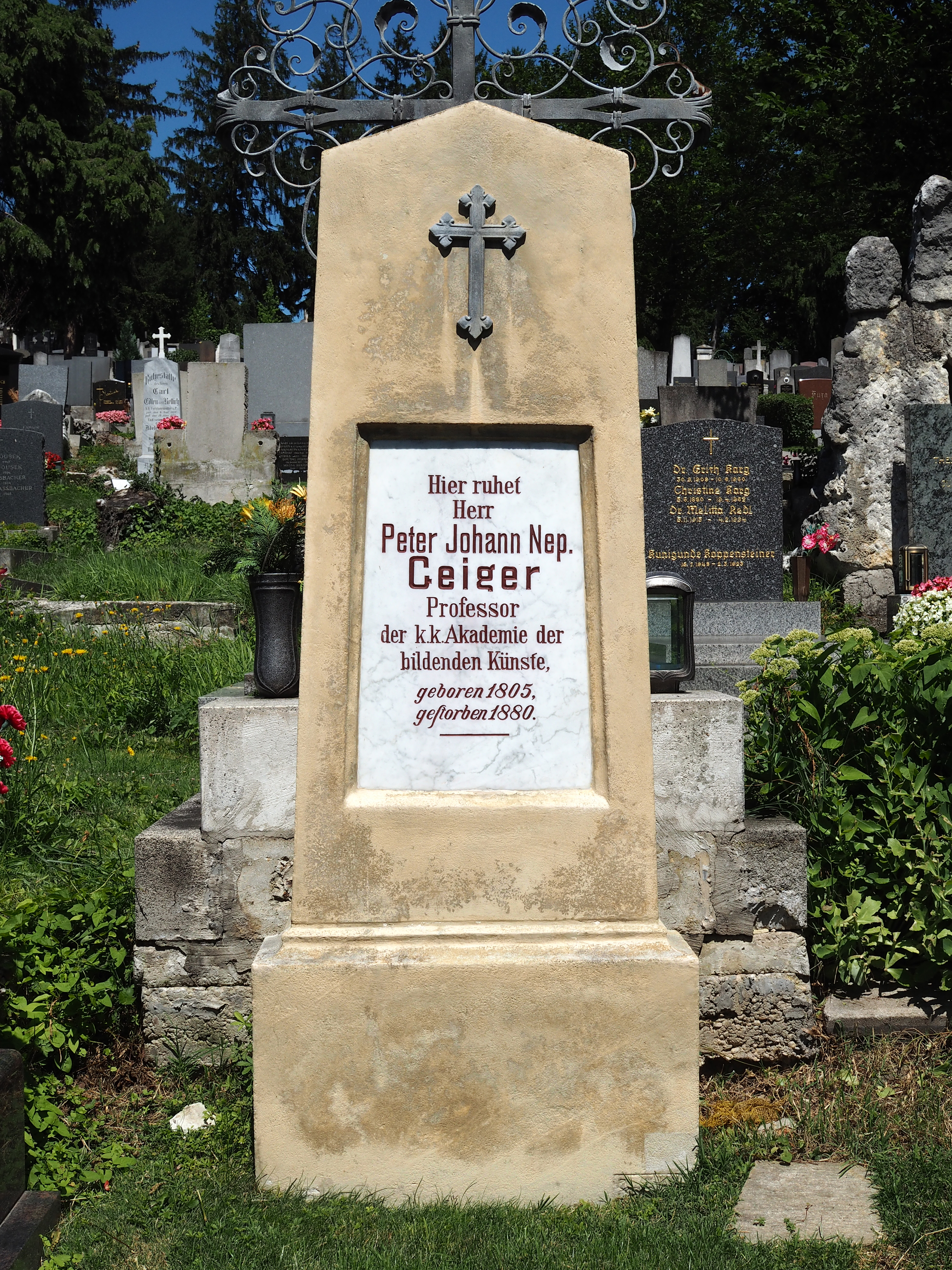 Grave of the painter Peter Johann Nepomuk Geiger (1805–1880). Hütteldorf cemetery, 1140 Vienna